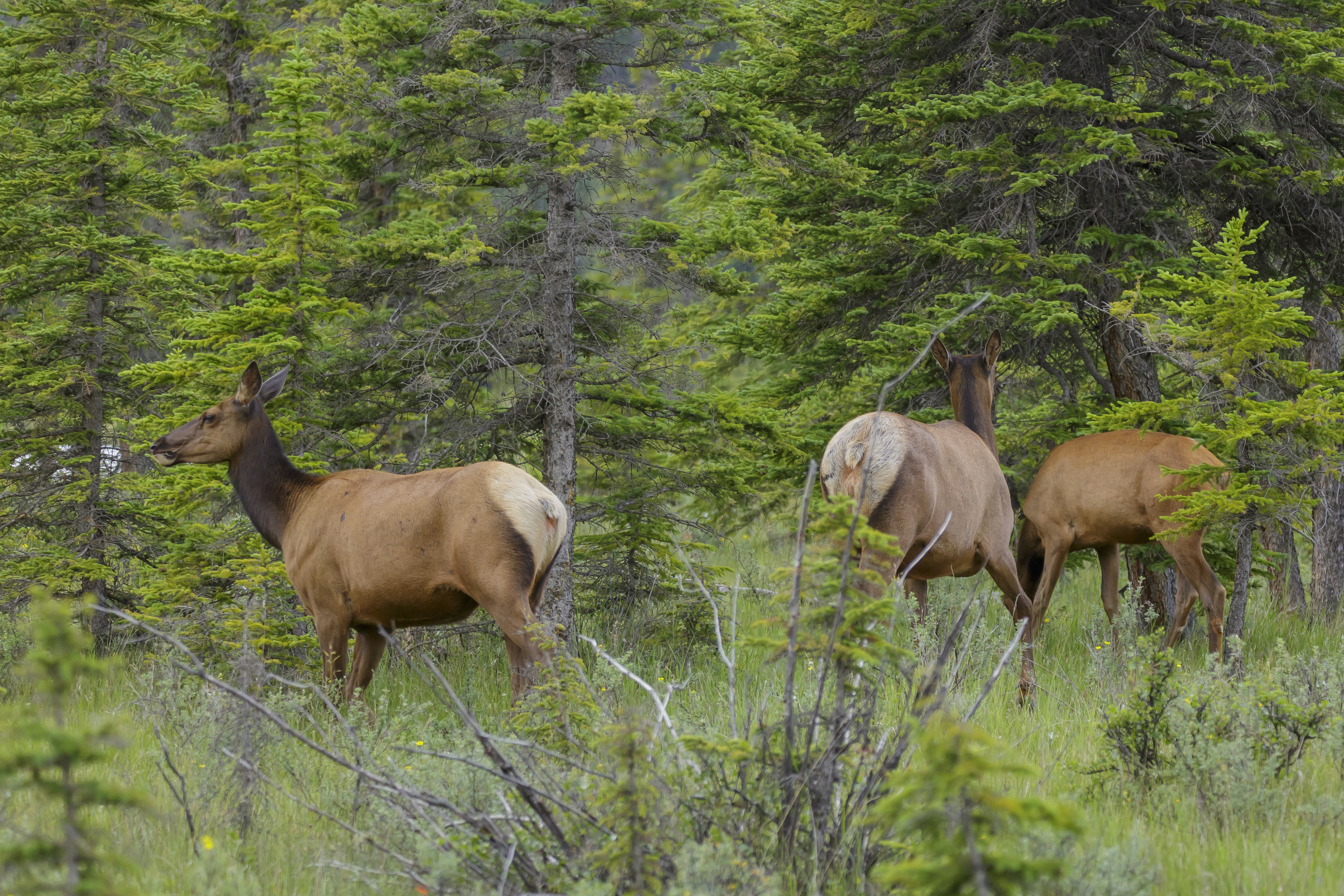 Rocky Mountain elk (Cervus canadensis nelsoni) - Jasper National Park - PanAmericana 2017 - the image was taken on an overlanding travel from Ushuaia to Anchorage - taken by Thomas Fuhrmann, SnowmanStudios - see more pictures on / mehr Aufnahmen auf